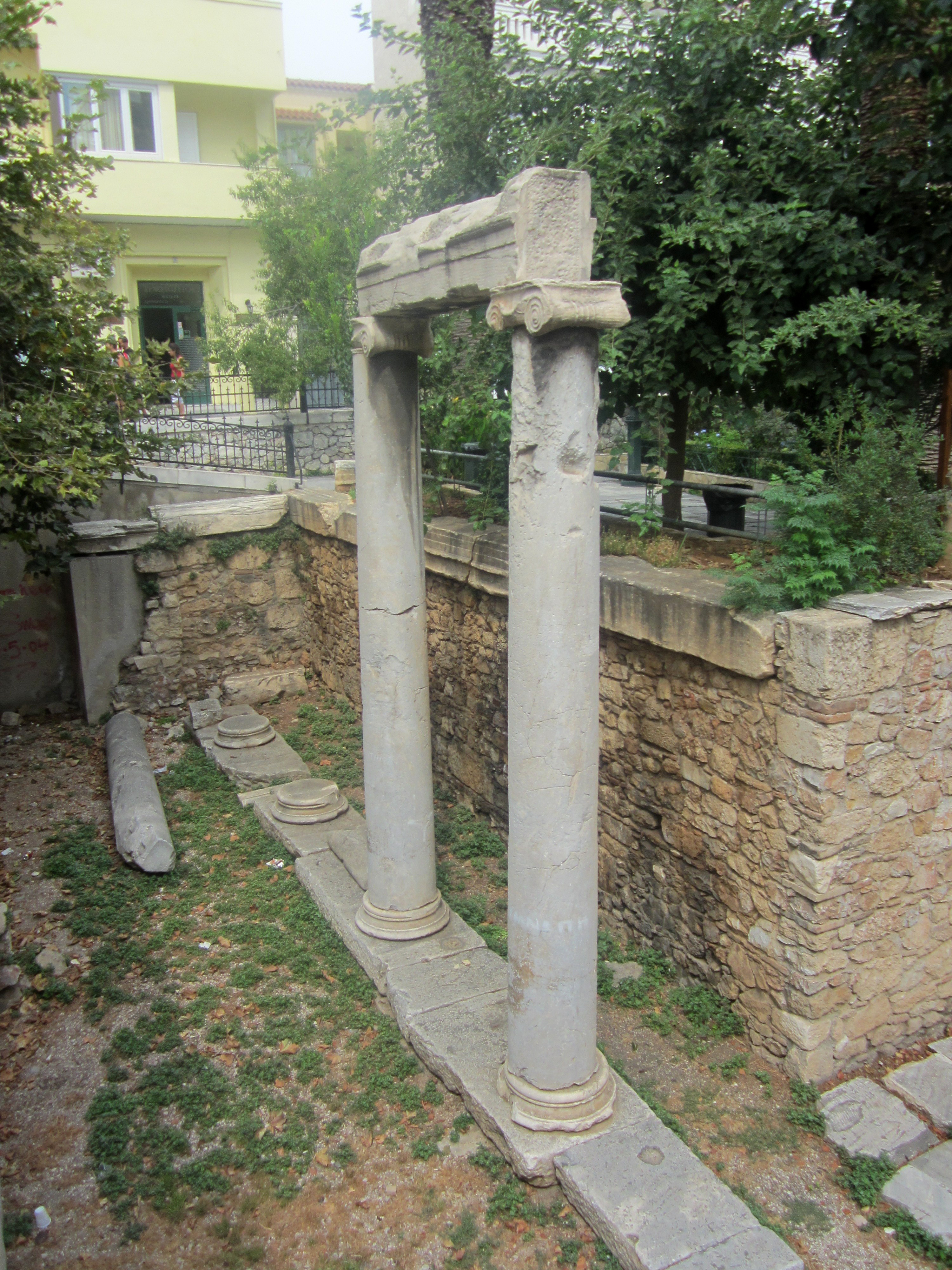 Ancient remains on Agia Aikaterini Square, Athens, Greece.